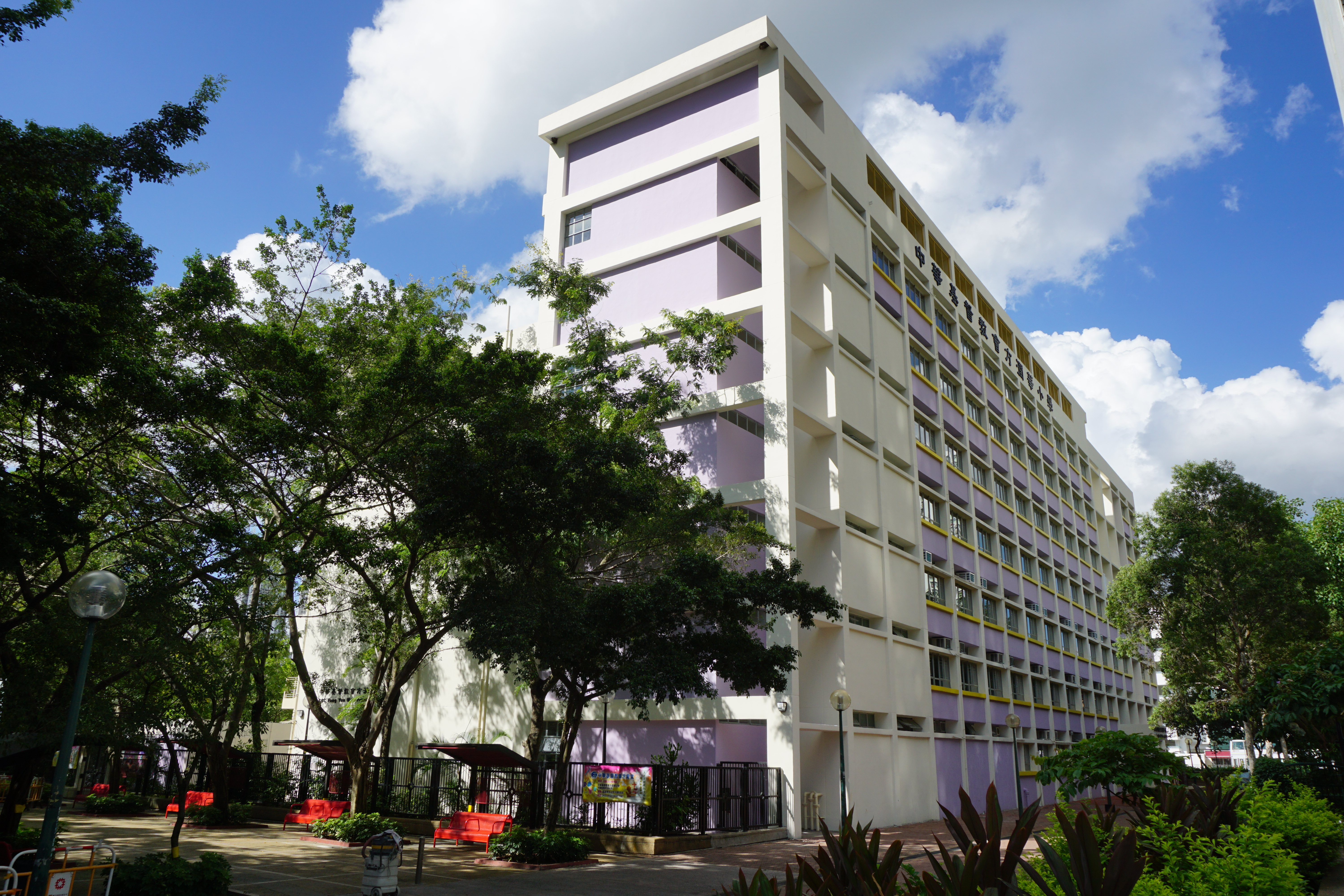 CCC Fong Yun Wah Primary School in Tin Shui Wai, Hong Kong.